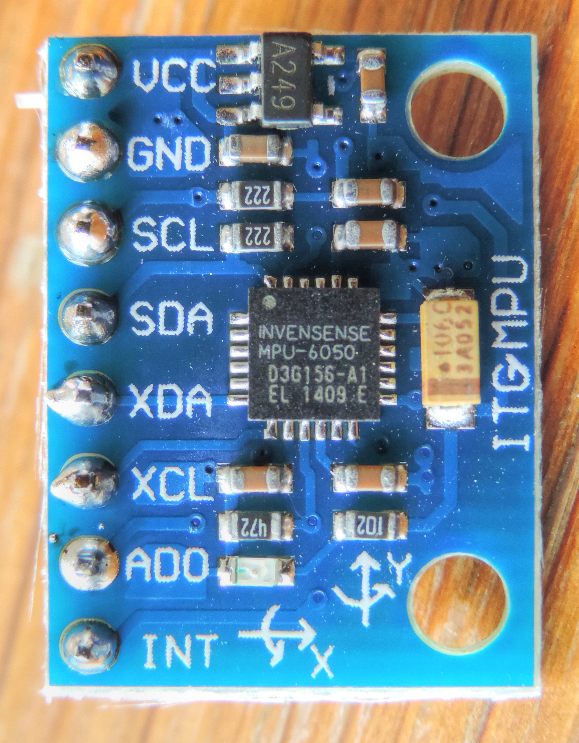 GY-521 MPU-6050 Module 3 Axis Gyroscope + Accelerometer